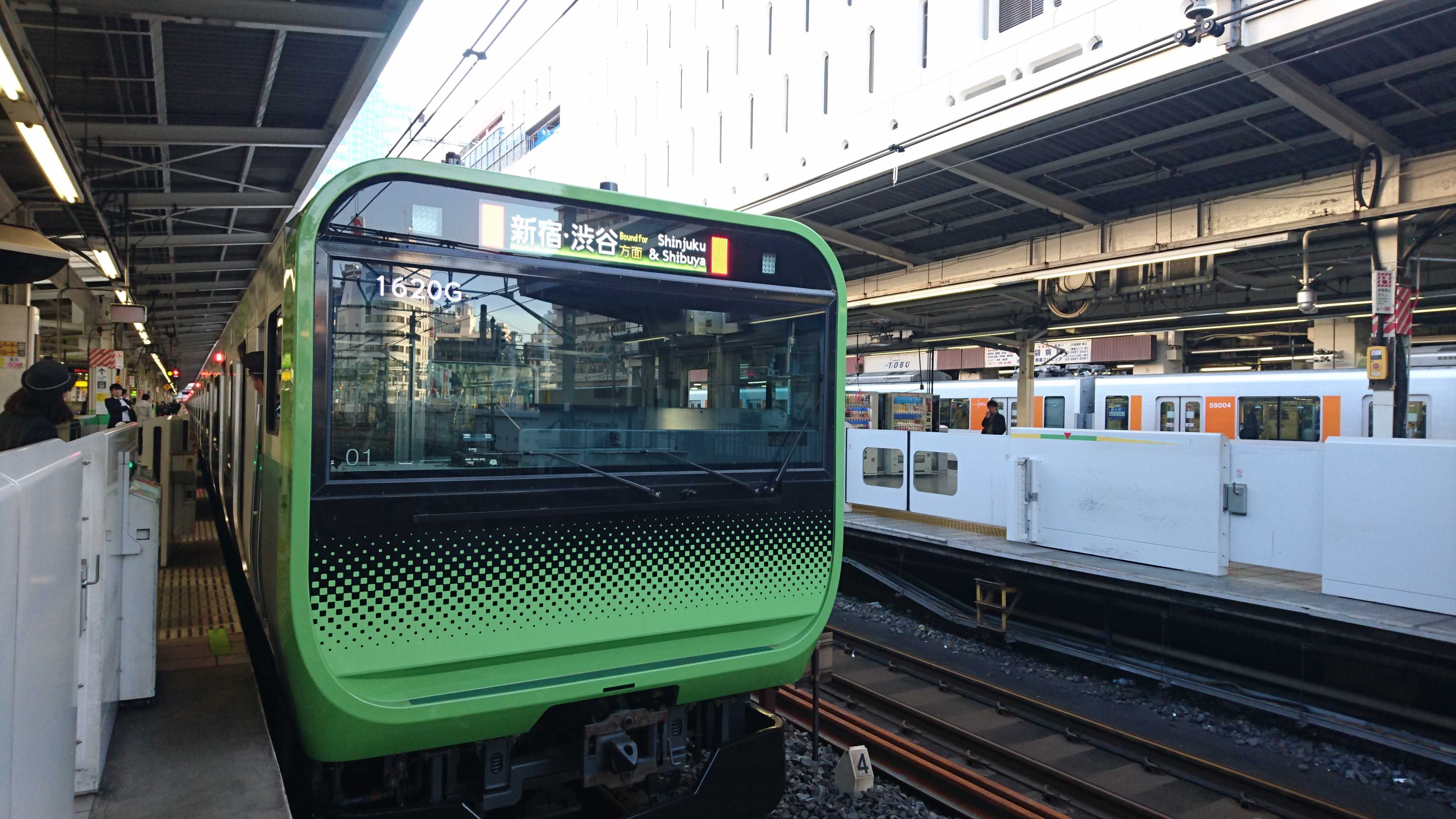 JR East E235 series EMU set 01 on a Yamanote Line service at Ikebukuro Station